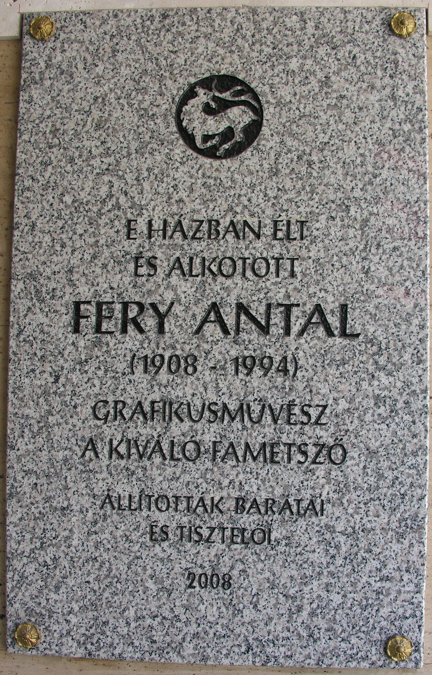 Commemorative plaque of Antal Fery in Budapest District XI, Fehérvári Street No 7